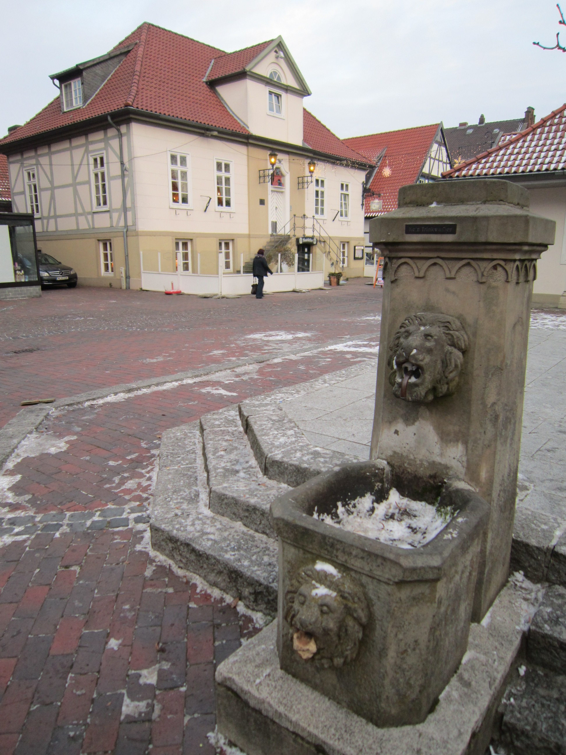 Ancient town hall in Neustadt am Rübenberge (Region Hanover, Lower Saxony)